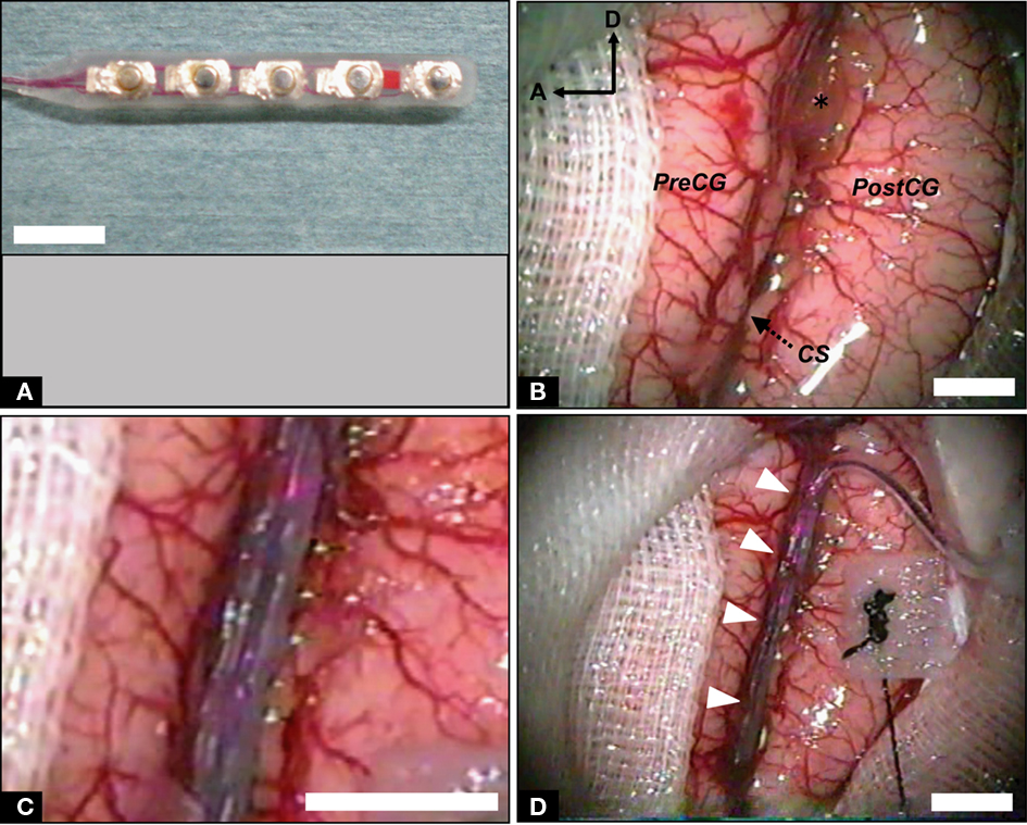 Implantation of stimulating ECoG probe into intrasulcal M1. (A) Double-faced silicone electrode array. (B) Photograph of the left fronto-parietal lobes before probe implantation. The CS was dissected from surface to bottom. PreCG, precentral gyrus; PostCG, postcentral gyrus; A, anterior; D, dorsal; asterisk, surgical cotton. (C) High-magnification view of the CS with inserted electrode array. (D) Low-magnification view of the CS following implantation of the probe. White arrowheads indicate the bridging veins preserved carefully. Scale bars, 5 mm.